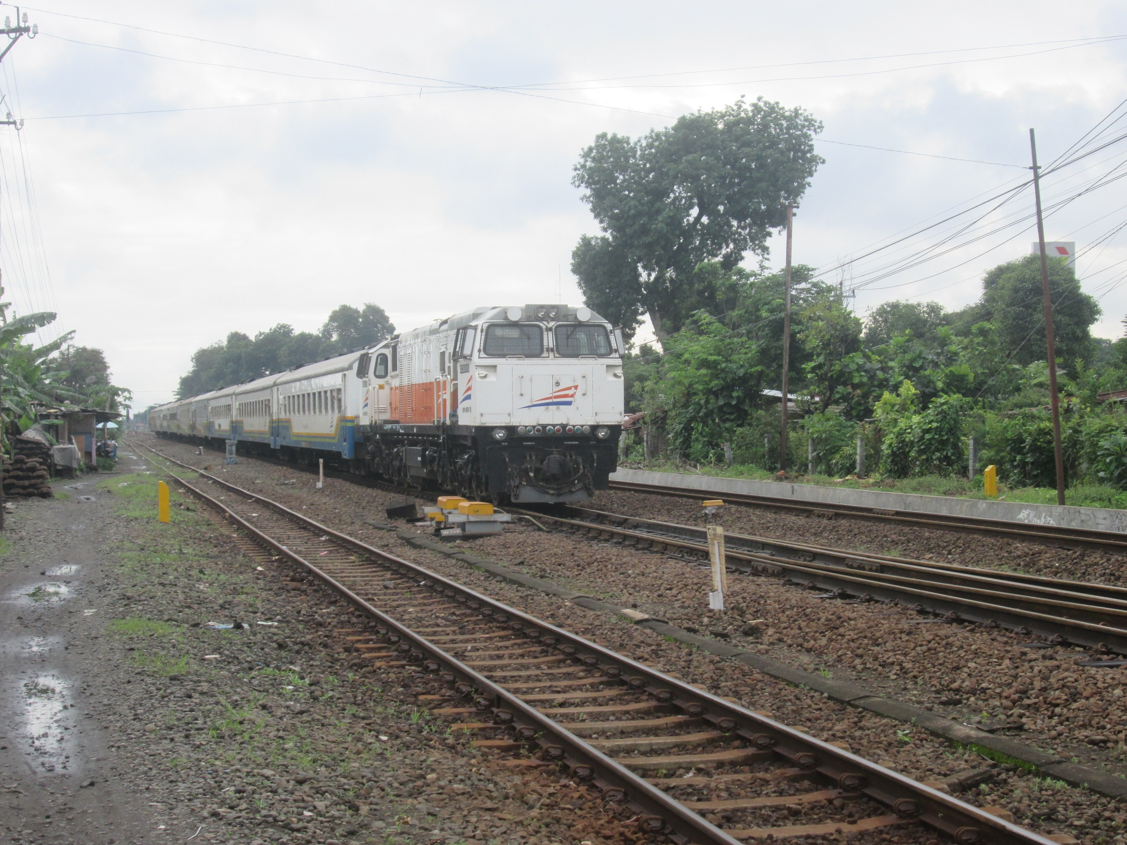 Lodaya train will pass Lempuyangan StationBahasa Indonesia: Lokomotif CC 206 menarik kereta api Lodaya di Stasiun Lempuyangan